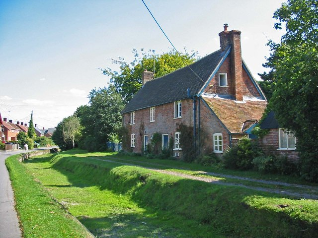 The river Crane, Cranborne. This river is a winterborne and usually flows from late autumn to late spring.